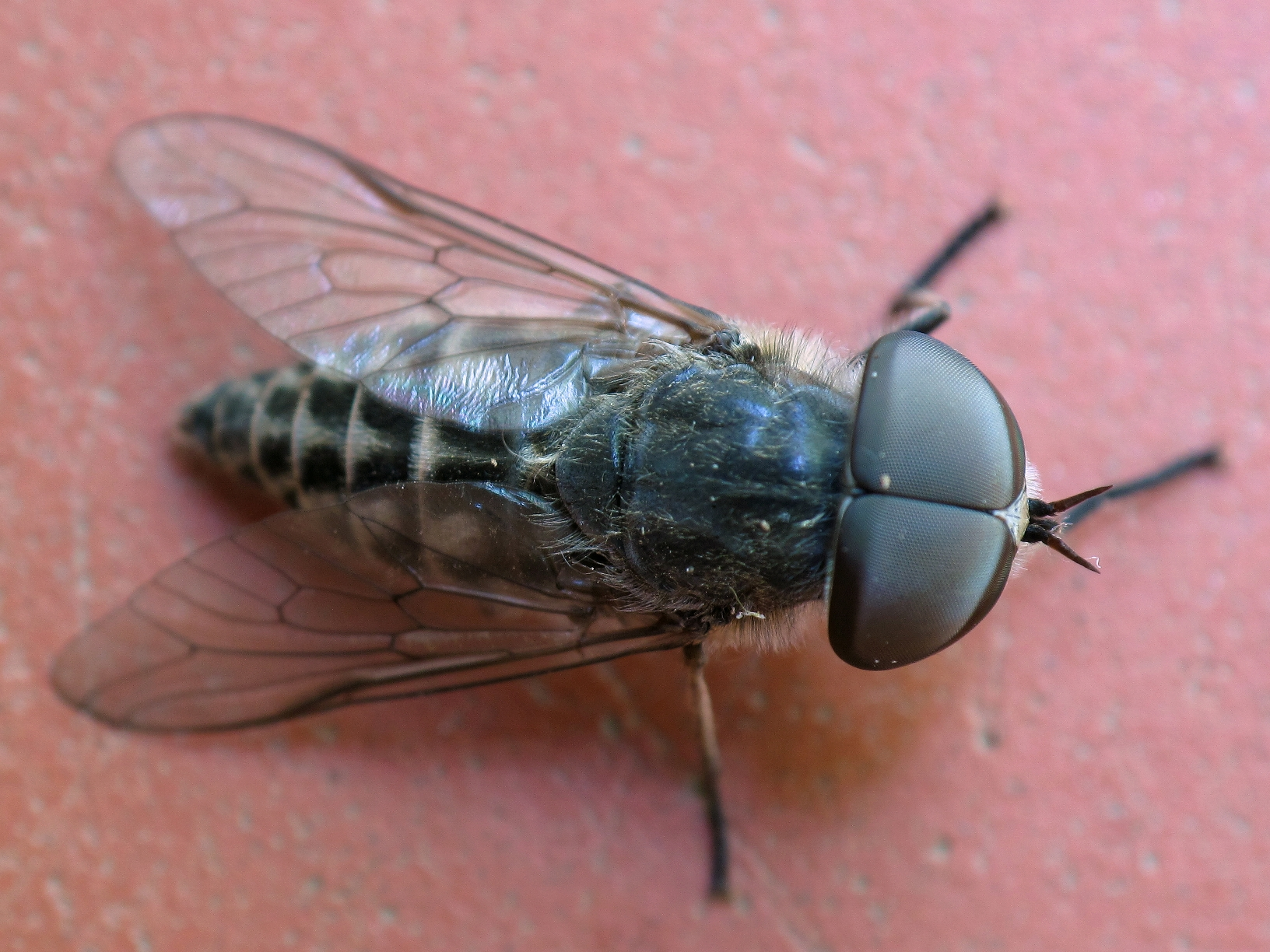 Fly, Bastavales Brión, Galicia